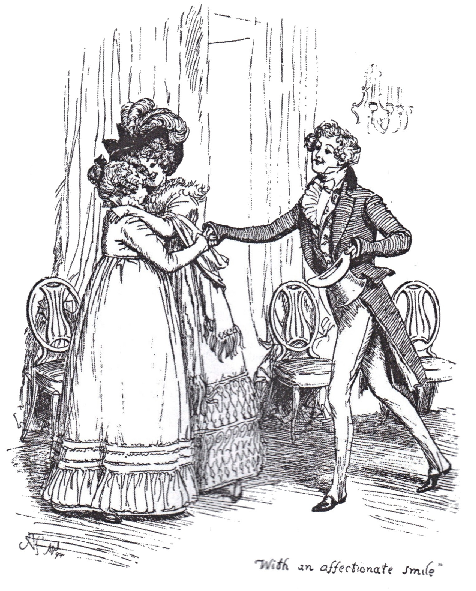 Illustration for Pride and Prejudice, ch. 51 :"with an affectionate smile"